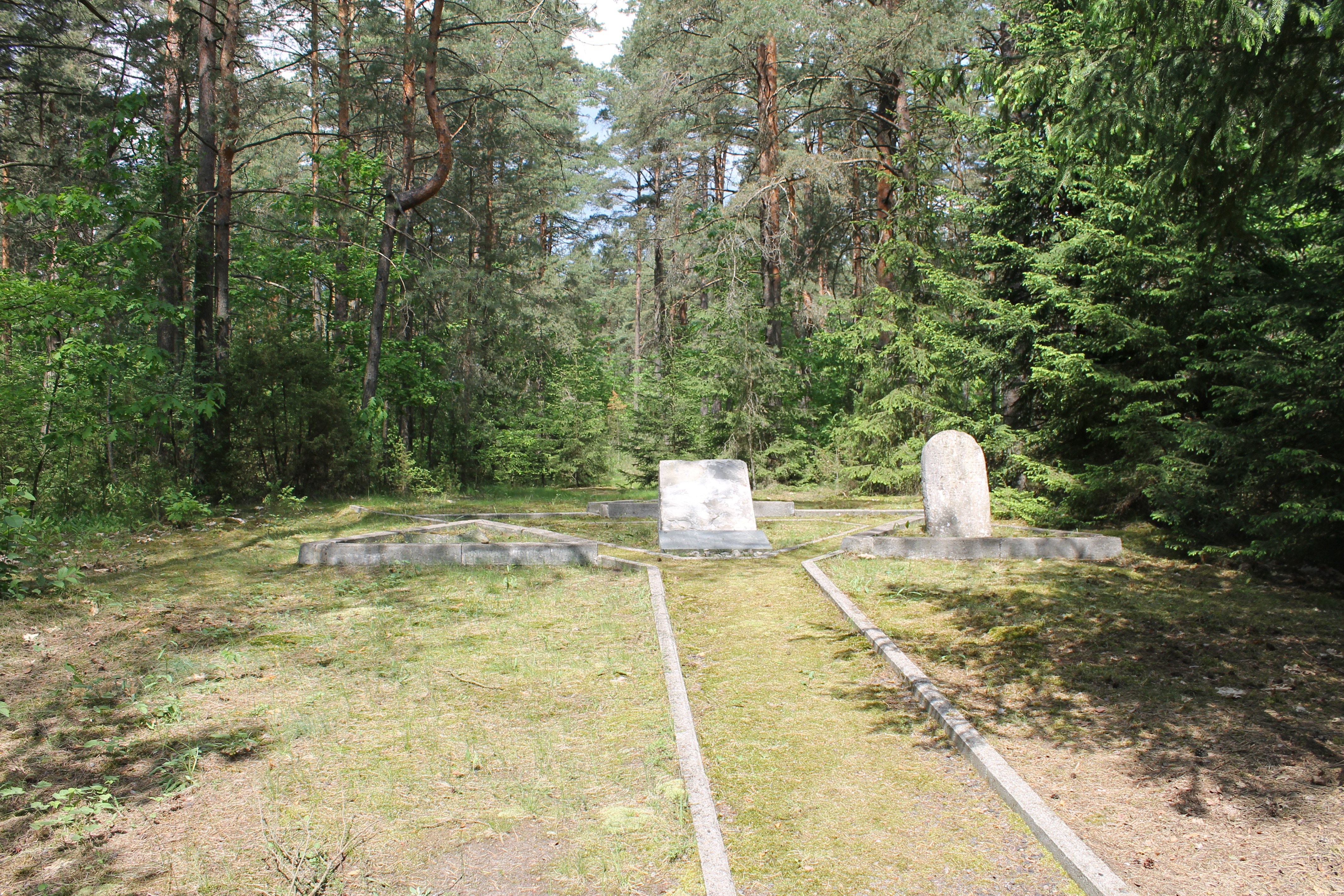 Druskininkai Jewish Cemetery, LithuaniaLietuvių: Druskininkų žydų kapinės, Lietuva